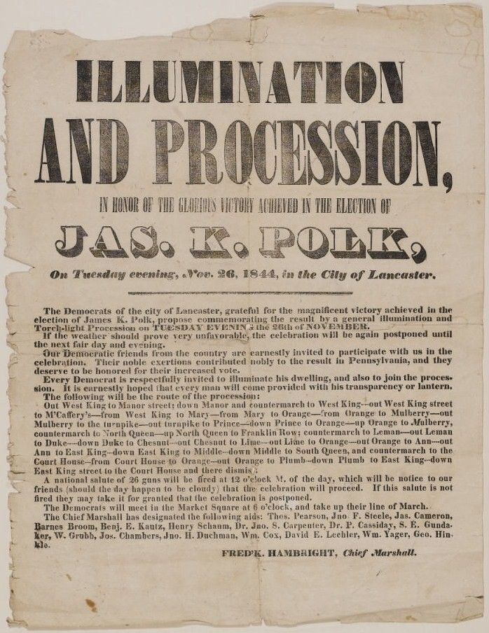 Local victory parade in Lancaster, Pennsylvania celebrating election of James K. Polk in the United States presidential election, 1844. Parade was to take place on November 26, 1844. Store Web page states: "Original political broadside announcing a torchlight, 'Illumination and Procession In Honor of the Glorious Victory Achieved in the Election of Jas. K. Polk, On Tuesday evening, Nov. 26, 1844, in the City of Lancaster'."